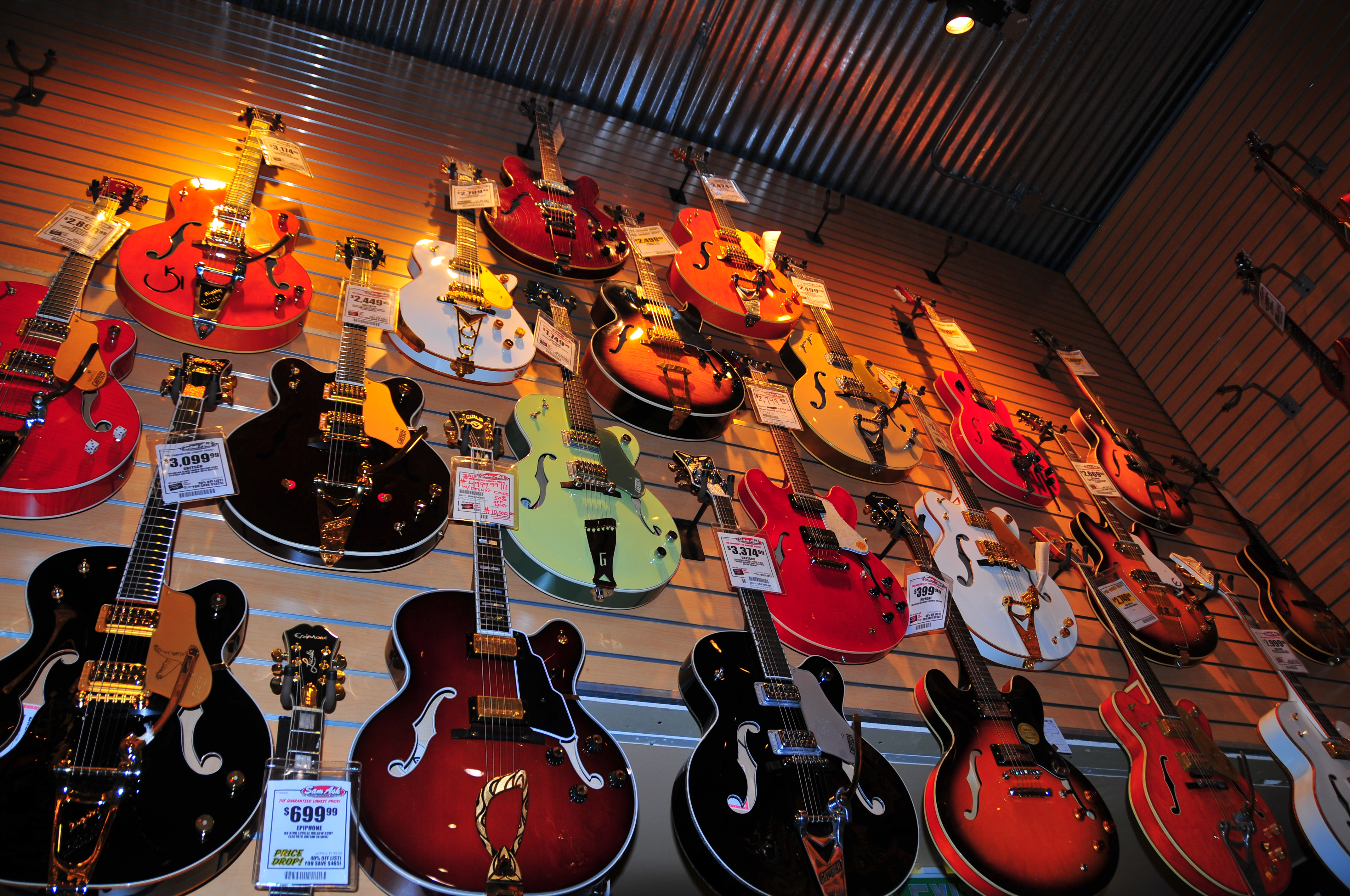 Gretsch & other semi-hollow-body guitars (except for ES-175 full-hollow-body electric guitar) Sam Ash, Hollywood Gretsch (Semi-hollow) Guild (Semi-hollow) Starfire ? (2nd left on bottom row) Epiphone Dot (3rd right on 2nd row, semi hollow) ES-175 (3rd left on 4th row, full hollow)